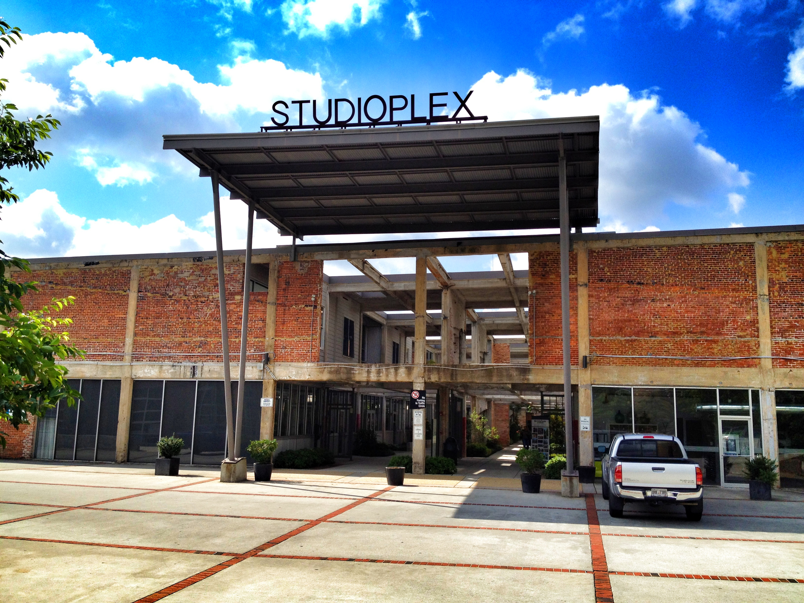 Studioplex Lofts, Old Fourth Ward, Atlanta